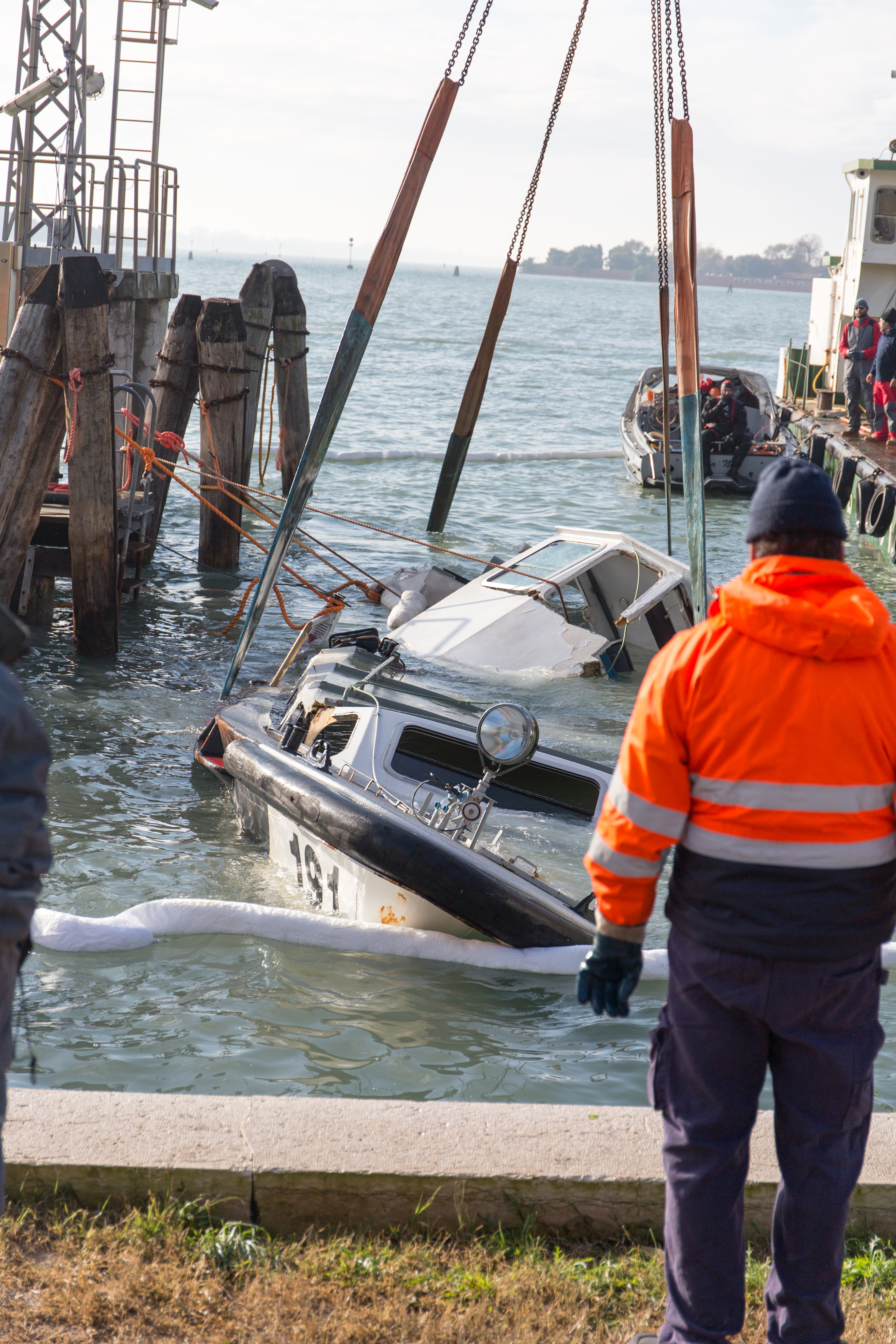 Venedig ACTV VE7727 191 Acqua alta